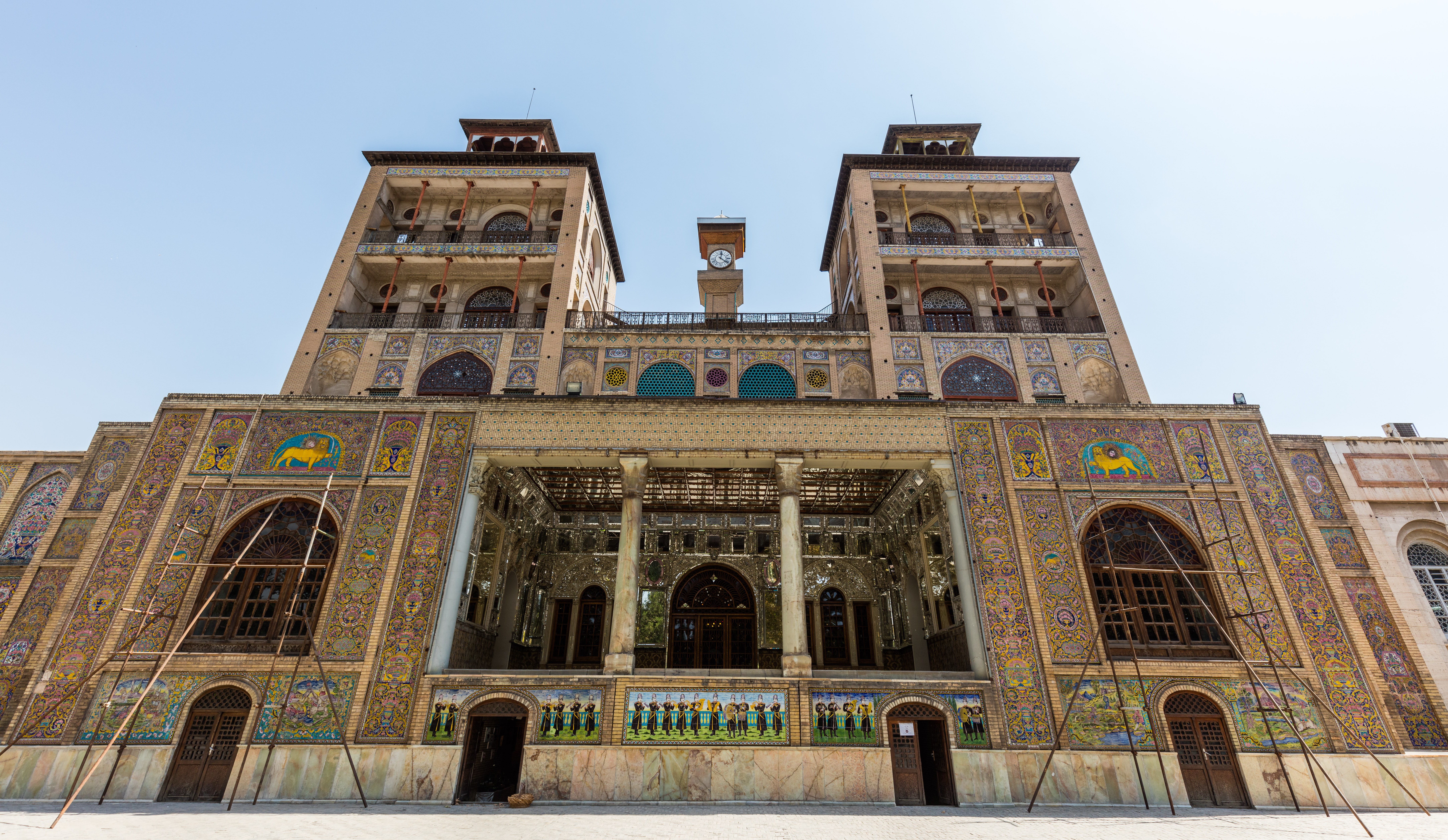 Golestan Palace, Tehran, Iran